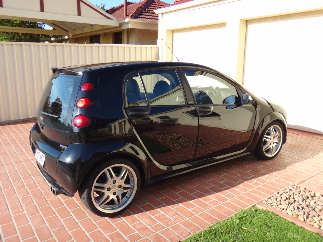 As soon as I saw it, I just had to have it!!! I finally sold the Volkswagen Polo about a month ago and swore I wouldn't be buying another car, as I had a company car anyway!! BUT!! This came in and I just went to water!! So now, this will be my daily driver and I've handed the company car back, which makes everyone happy!!